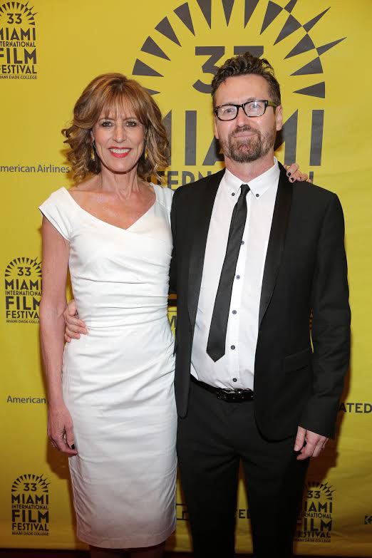 Actress Christine Lahti and director Andrew Currie of The Steps Photo: Alberto Tamargo